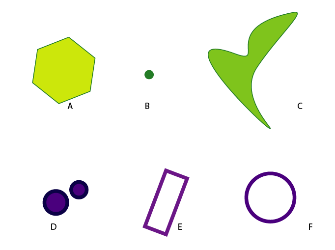 A figure illustrating some contractible spaces and some non-contractible spaces.